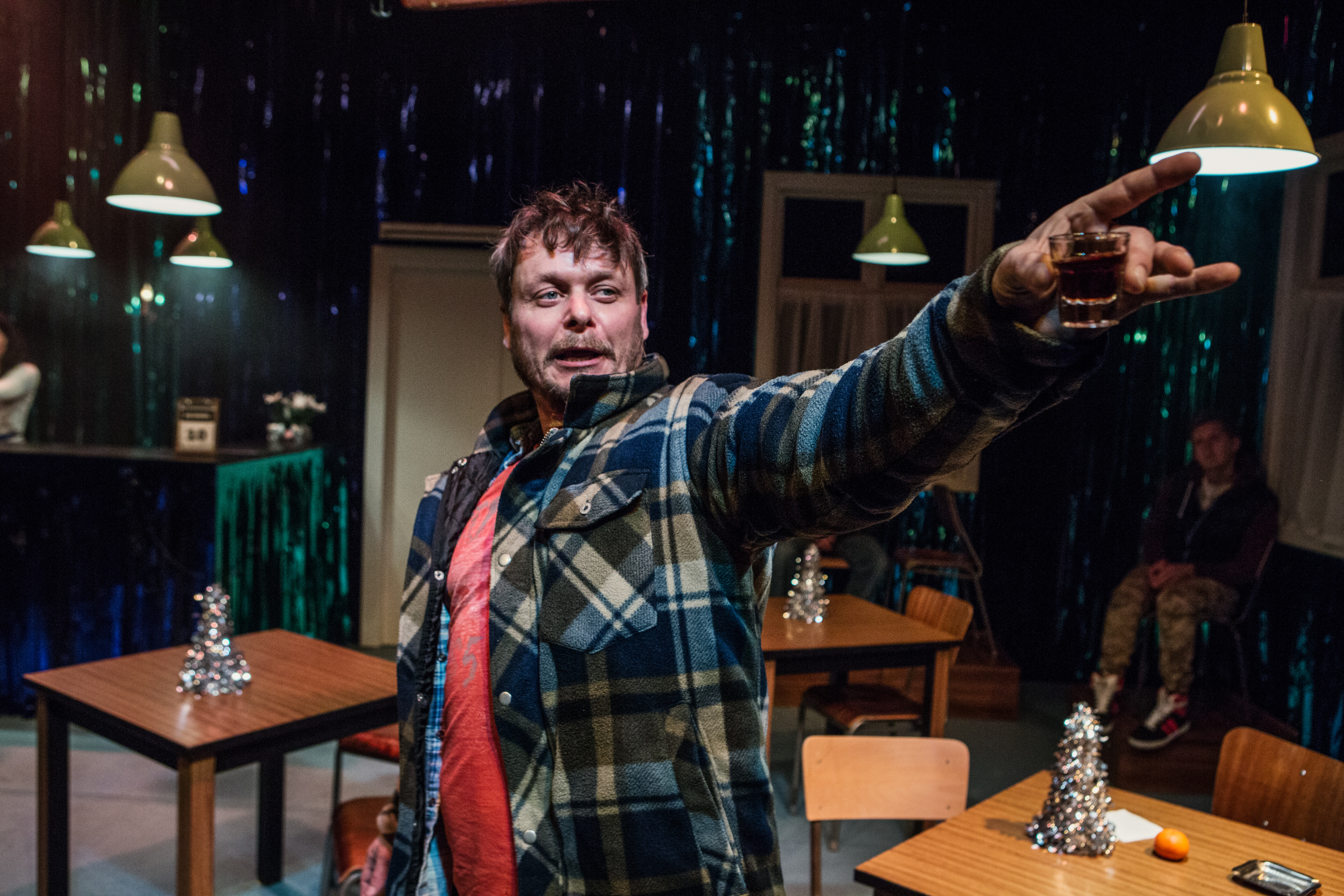 Lars Topp Thomsen in the Copenhagen theater Folketeatret's production of the play "Varmestuen" by Anna Bro.